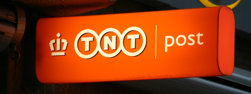 TNT post sign in Amsterdam